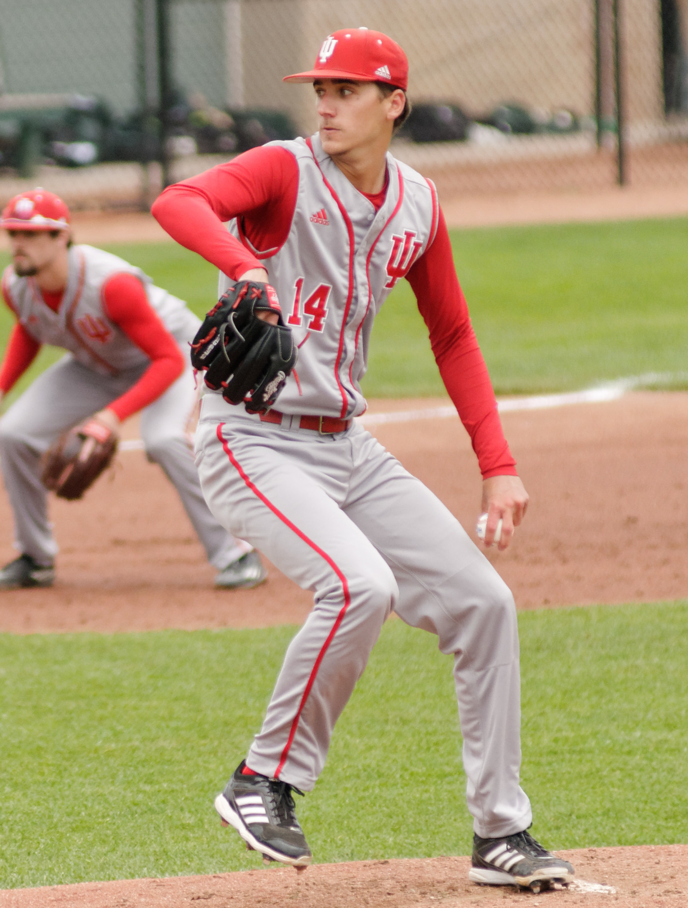 Kyle Hart pitches for the Indiana Hoosiers during a 2016 game in Michigan.